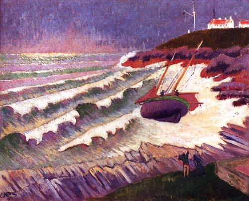 Bateau a la cote